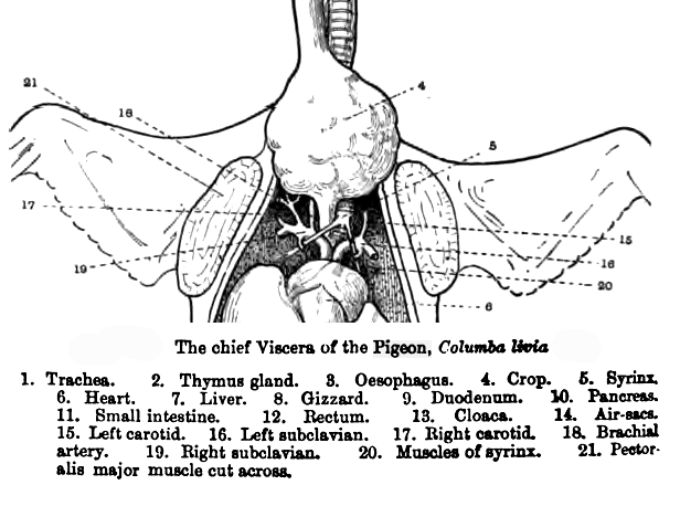 Cropped version of image of viscera of pigeon